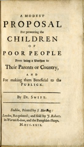 Picture of the cover for A Modest Proposal by Jonathan Swift